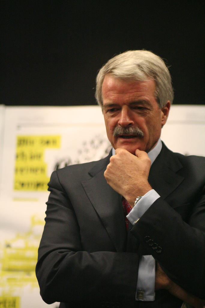 Malcolm Grant, President and Provost of University College London, speaking at "What good are the arts?"